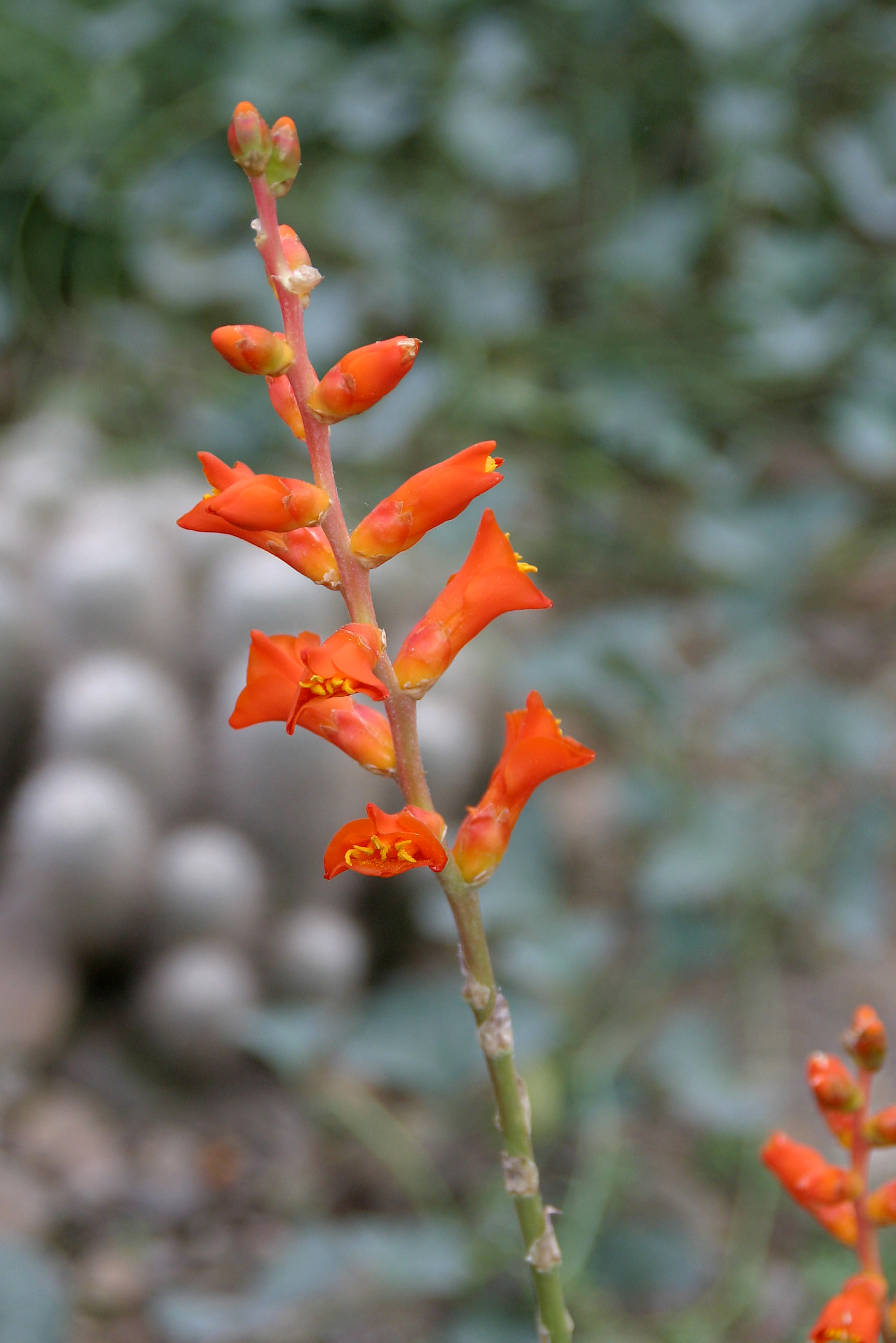 Dyckia rariflora (Schult. fil.) - Botanical Garden, Bonn